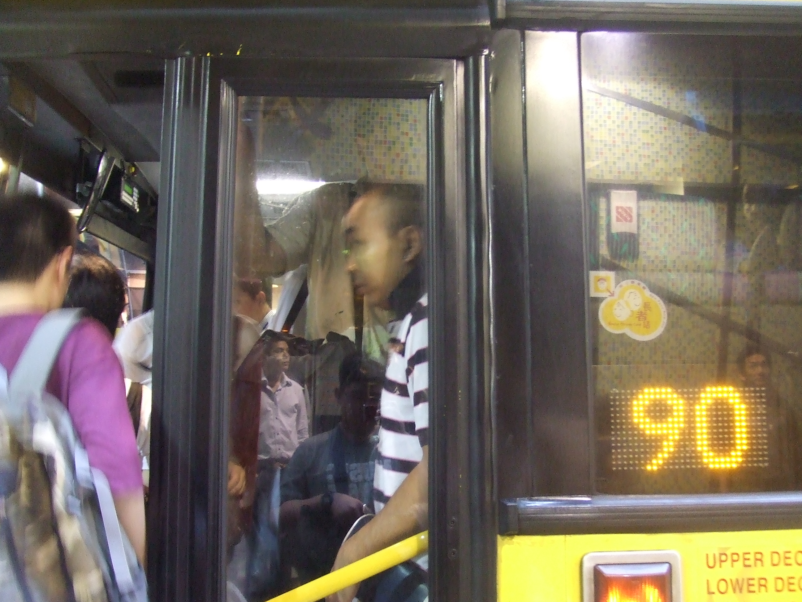 At around 7:00p.m., many bus routes serving Southren District, Hong Kong are always very crowded. This is Citybus route 90.